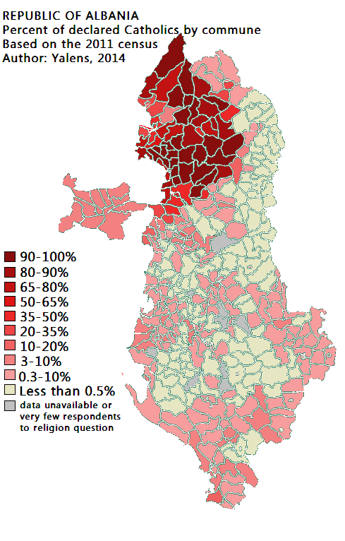 This map represents the distribution of Catholics in Albania by municipality as according to the census of 2011. Notably, the distribution of Catholics is the only religious distribution in Albania for which the 2011 census' data is undisputed and viewed as reliable. Darker shades of red indicate a higher percent in the municipality of Catholics, while lighter shades indicate a lower, but still significant, percent. Districts colored beige have either none or very small numbers of Catholics. The map was based off this map here ( credits to Tefci :).